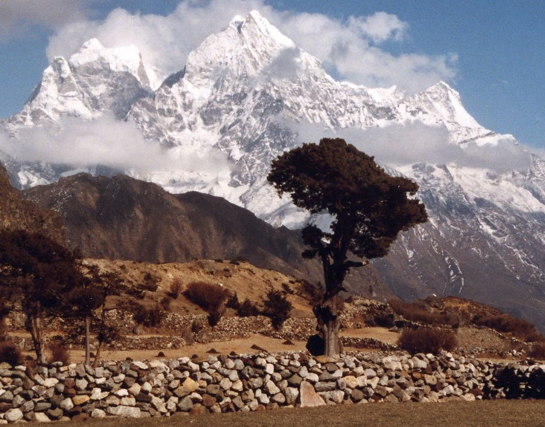 Thamserku (right) and Kantega (left) as seen from Thame